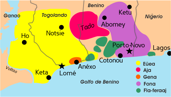 Map - labelled in Esperanto - showing the distribution of the various Gbe languages